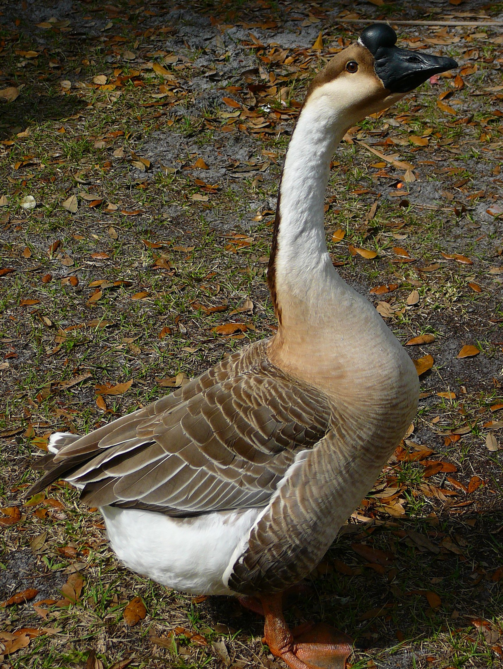 Chinese goose Anser cygnoides in Venus, Florida